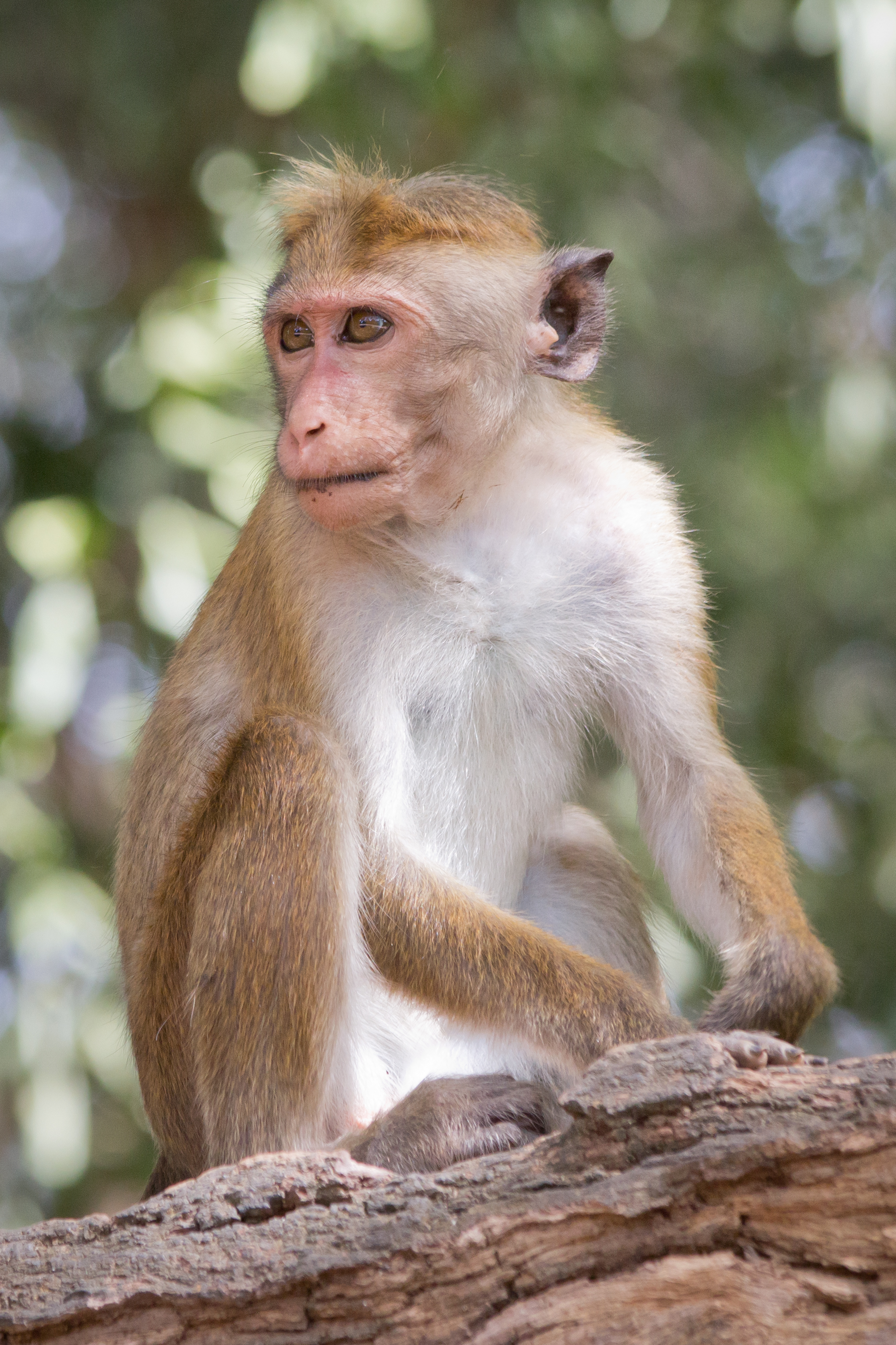 Wild toque macaque (Macaca sinica) in Yala National Park, Sri Lanka.